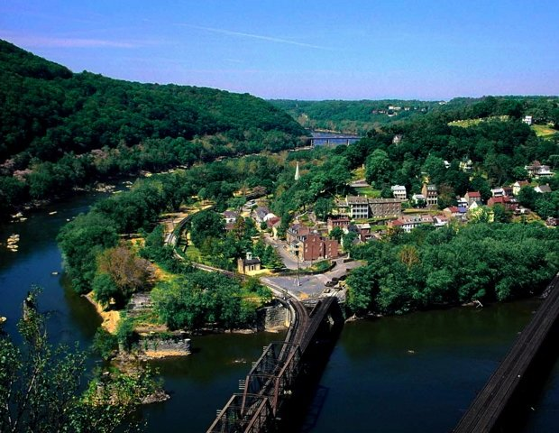 Harpers Ferry National Historic Park in West Virginia — seen from the Washington Heritage Trail in Maryland Heights, Maryland. With the B & O Railroad Crossing over the Potomac River.